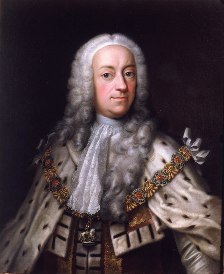 Portrait of King George II.